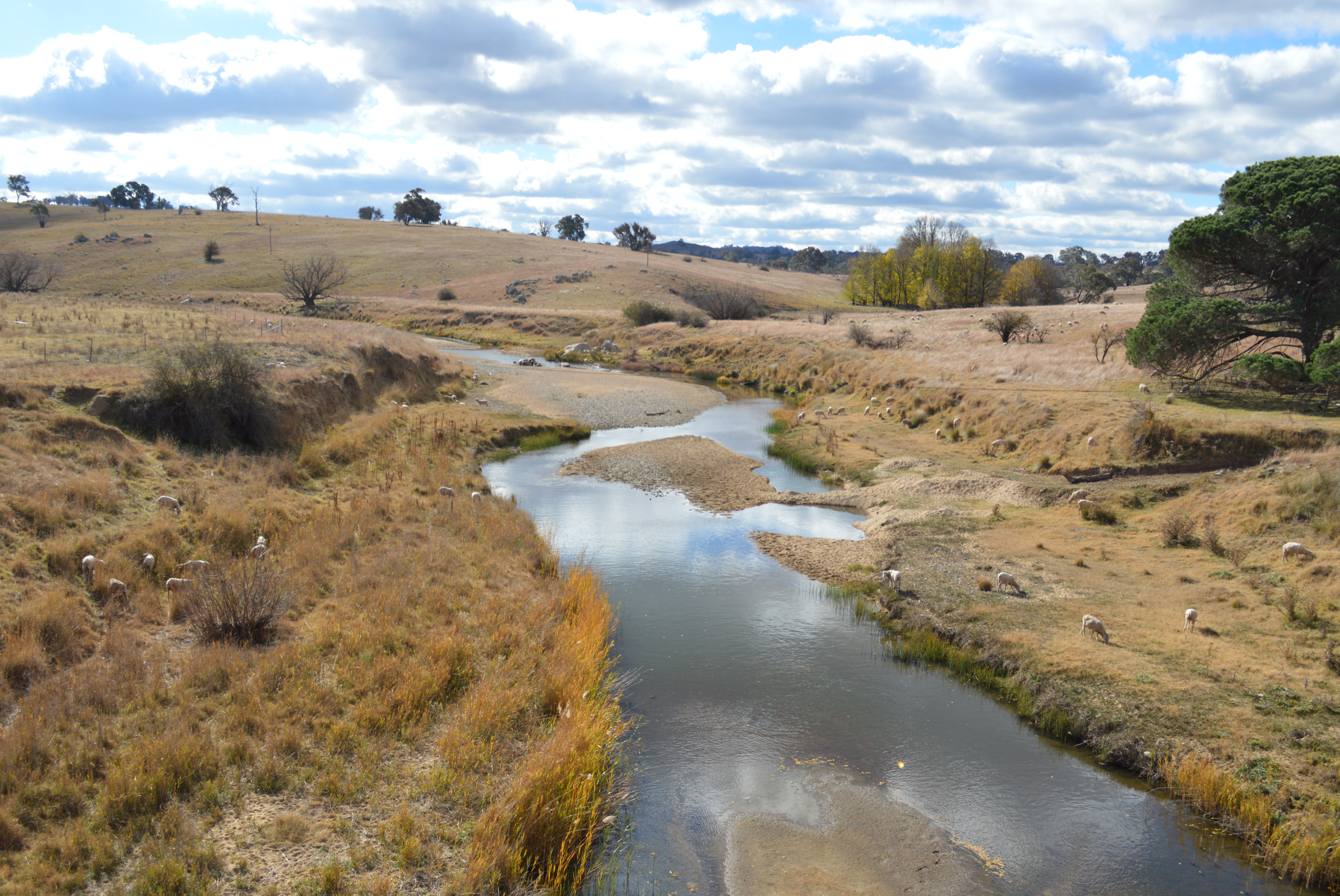 Inglewood Bridge over the Lachlan River near Gunning, New South Wales